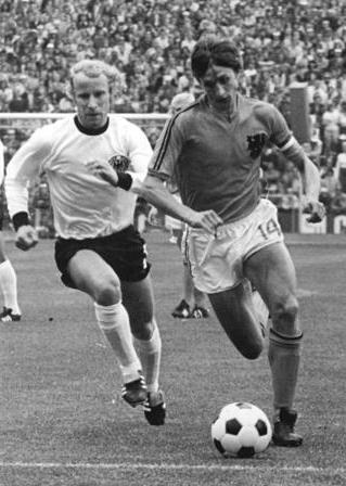 Title: Fußball-WM, BRD - Niederlande 2:1 Factual corrections and alternative descriptions are encouraged separately from the original description. Additionally errors can be reported at this page to inform the Bundesarchiv. Original historic description: ADN-ZB-Mittelstädt-16.7.74-wen-München: X. Fußball-Weltmeisterschaft- Endspiel BRD gegen Niederlande 2:1 am 7.7.74- Johannes Cruyff (Niederlande, Mitte) setzt sich hier gegen die beiden BRD-Spieler Berti Vogts (2.von links) und Uli Hoeness (rechts) durch.